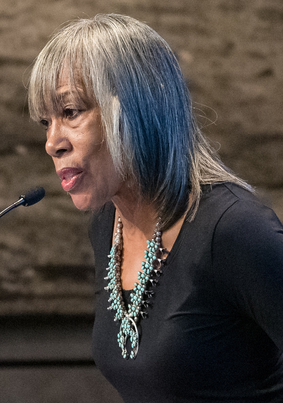 Dr. Phoebe Farris, Powhatan-Pamunkey Tribe, speaks at a naming ceremony for 2014 MU69, a celestial body discovered by the New Horizons mission and Hubble Space Telescope, formerly nicknamed “Ultima Thule”, Tuesday, Nov. 12, 2019, at NASA Headquarters in Washington. The new name, “Arrokoth,” means “sky” and is from the Algonquian Languages, spoken by the Powhatan tribes of the region of Maryland it was discovered in. Tribal elders from those tribes approved of the name and participated in the ceremony.